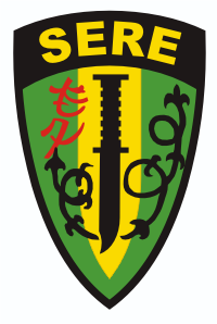 SERE insignia Category:United States Marine Corps images